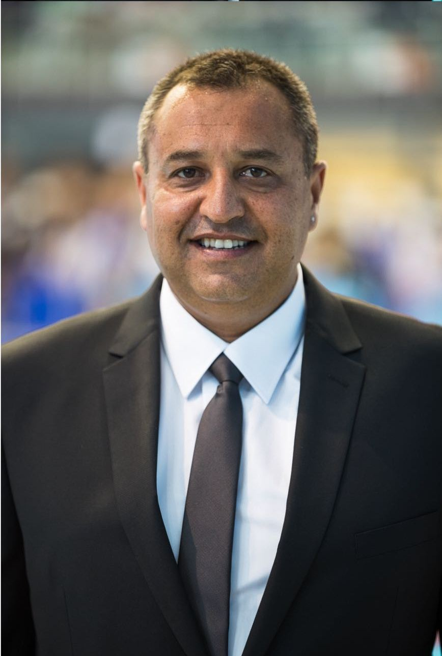 Simon Davidson